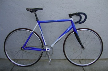 A track bicycle made by Cyfac.